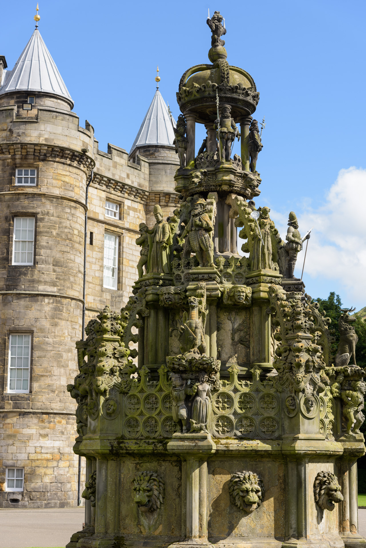 Fountain in the forecourt of Holyrood palace.